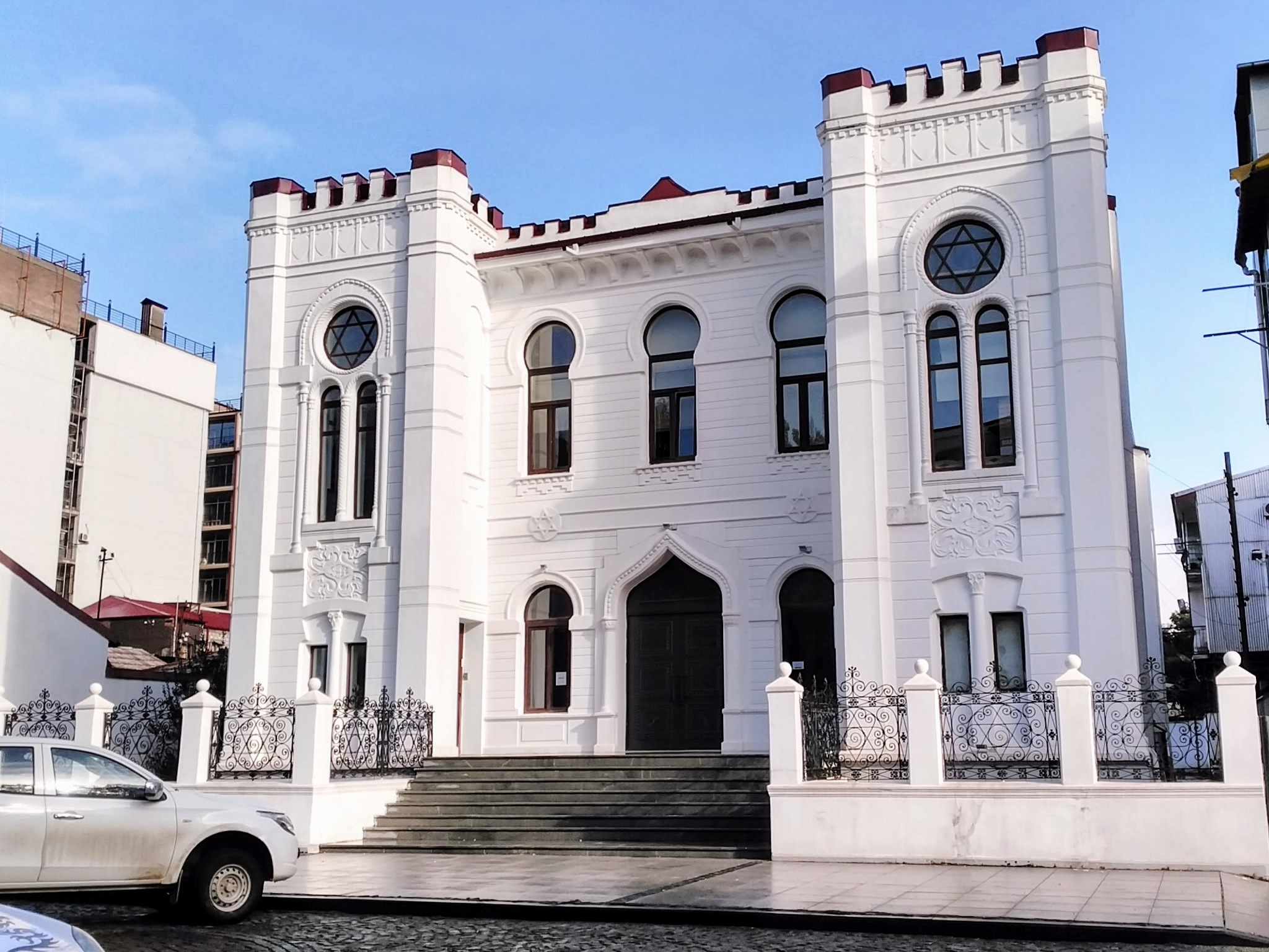 Batumi Synagogue